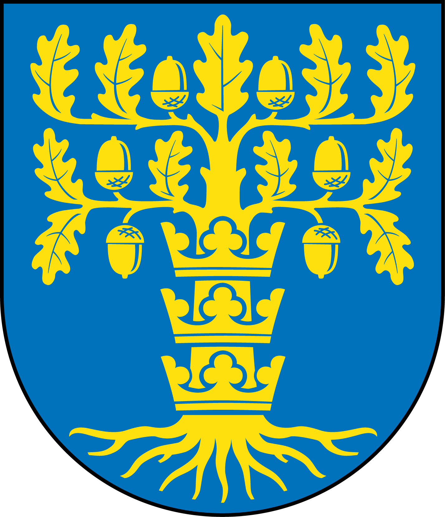 Coat of arms of the province of Blekinge, Sweden. Painted by Vladimir A. Sagerlund when he was the heraldic artist at the National Archives of Sweden (Riksarkivet). This representation of a coat of arms is potentially different from the one used by the armiger (municipality or organisation) in question. = ⇑“Sable, a lionrampant or” This coat of arms was drawn based on its blazon which – being a written description – is free from copyright. Any illustration conforming with the blazon of the arms is considered to be heraldically correct. Thus several different artistic interpretations of the same coat of arms can exist. The design officially used by the armiger is likely protected by copyright, in which case it cannot be used here.Individual representations of a coat of arms, drawn from a blazon, may have a copyright belonging to the artist, but are not necessarily derivative works. Further information: Commons:Coats of arms and Template:Coa blazon